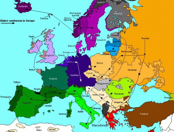 English version of File:Europe Continuum.gif